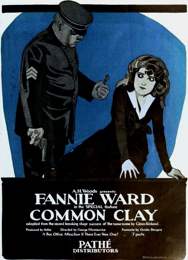 Ad for the American film Common Clay (1919) with Fannie Ward, on page 723 of the February 8, 1919 Moving Picture World.